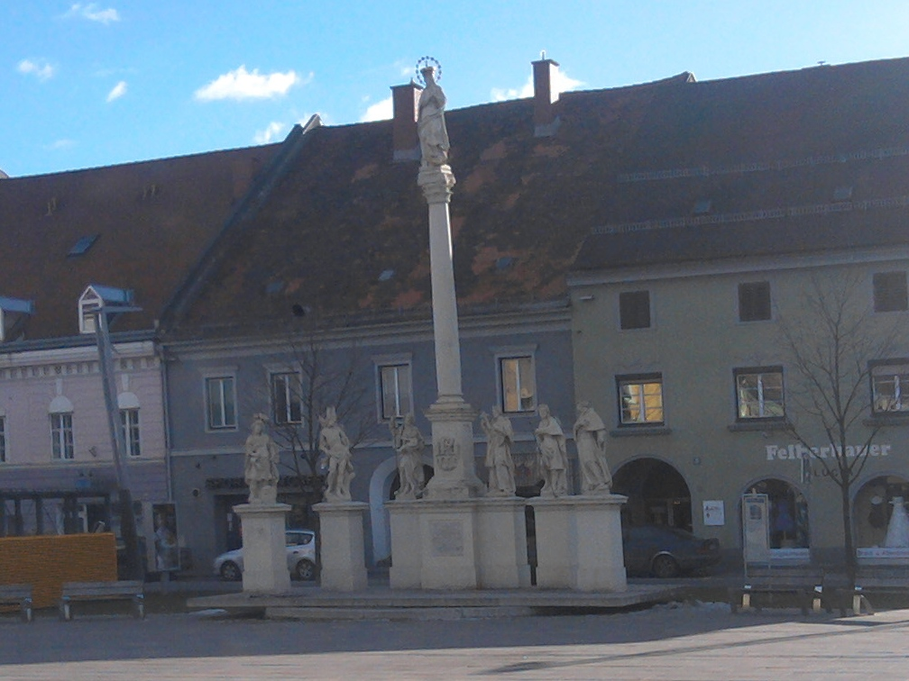 Mariensäule in Bruck an der Mur, Austria. The whole group from north-west some distance away.